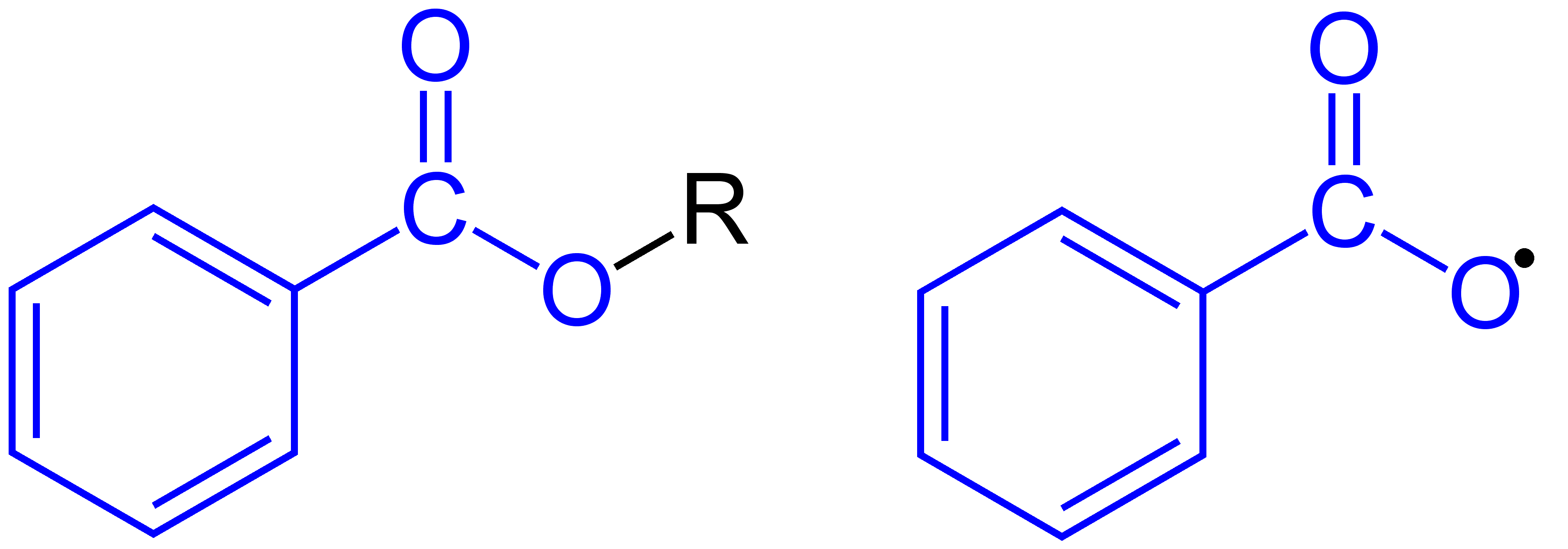 Benzoyloxy_group